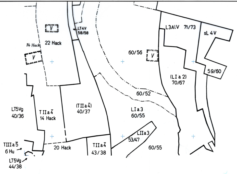 Example of a map, that´s used for the valuation of the ground in germany.